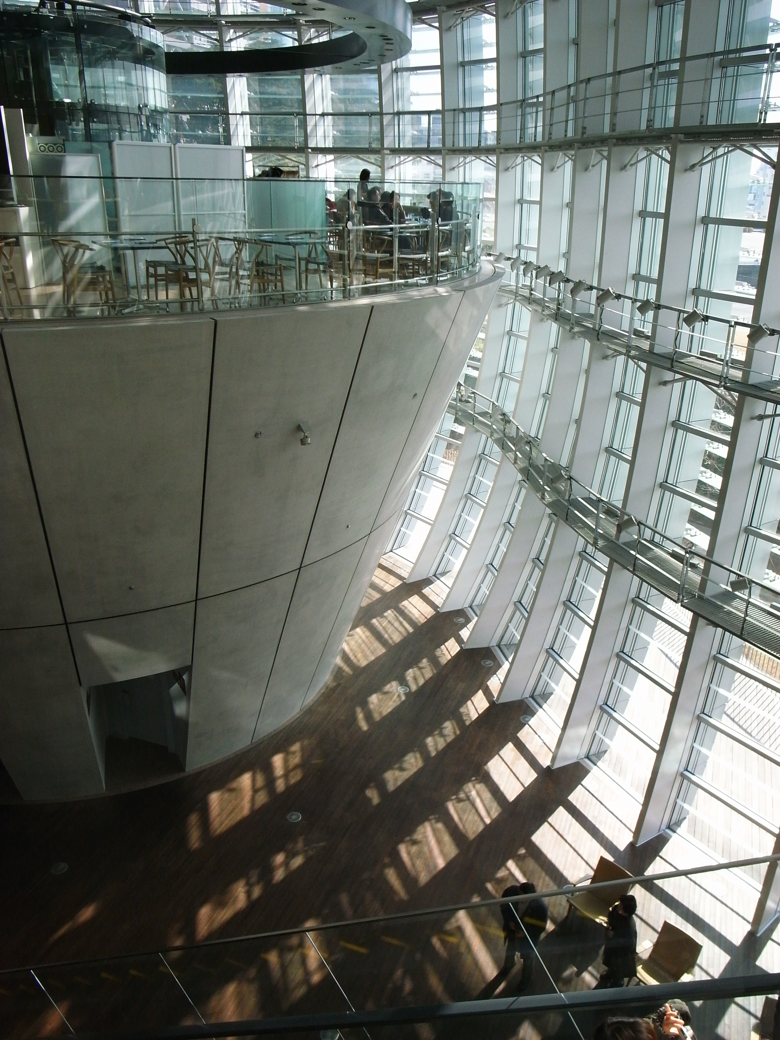 National Art Center, Tokyo.